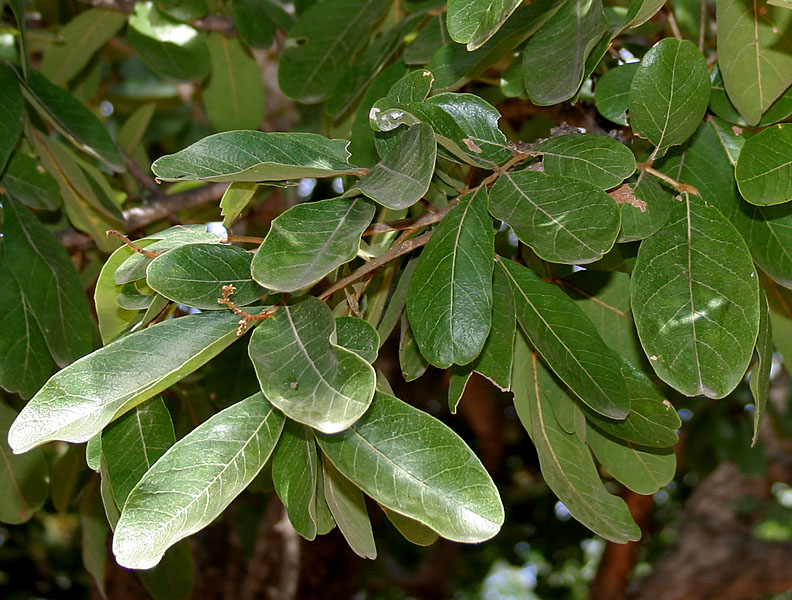 Sapindus emarginatus - Notched Leaf Soapnut • Hindi: रीठा Reetha • Kannada: Kookatakayi, Kudale-kaye, Kukate-kayi • Malayalam: Chavakayimaram, Punnan-kotta, Urvanjik-kaya, Uruangi • Marathi: aritha, rimgi, rimthi • Oriya: Ritha • Sanskrit: Arishta, arishtaphalam, Aristam, Phenila • Tamil: Ponnankottai, Manipungan maram, Poovandikottai • Telugu: Kukudu-kayalu, Kungititkaya, Kunkudu-chettu - at Deer Park in Shamirpet, Rangareddy district, Andhra Pradesh, India.